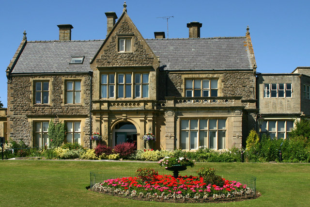 Ullenwood National Star College This is an excellent college catering especially for young disabled people.